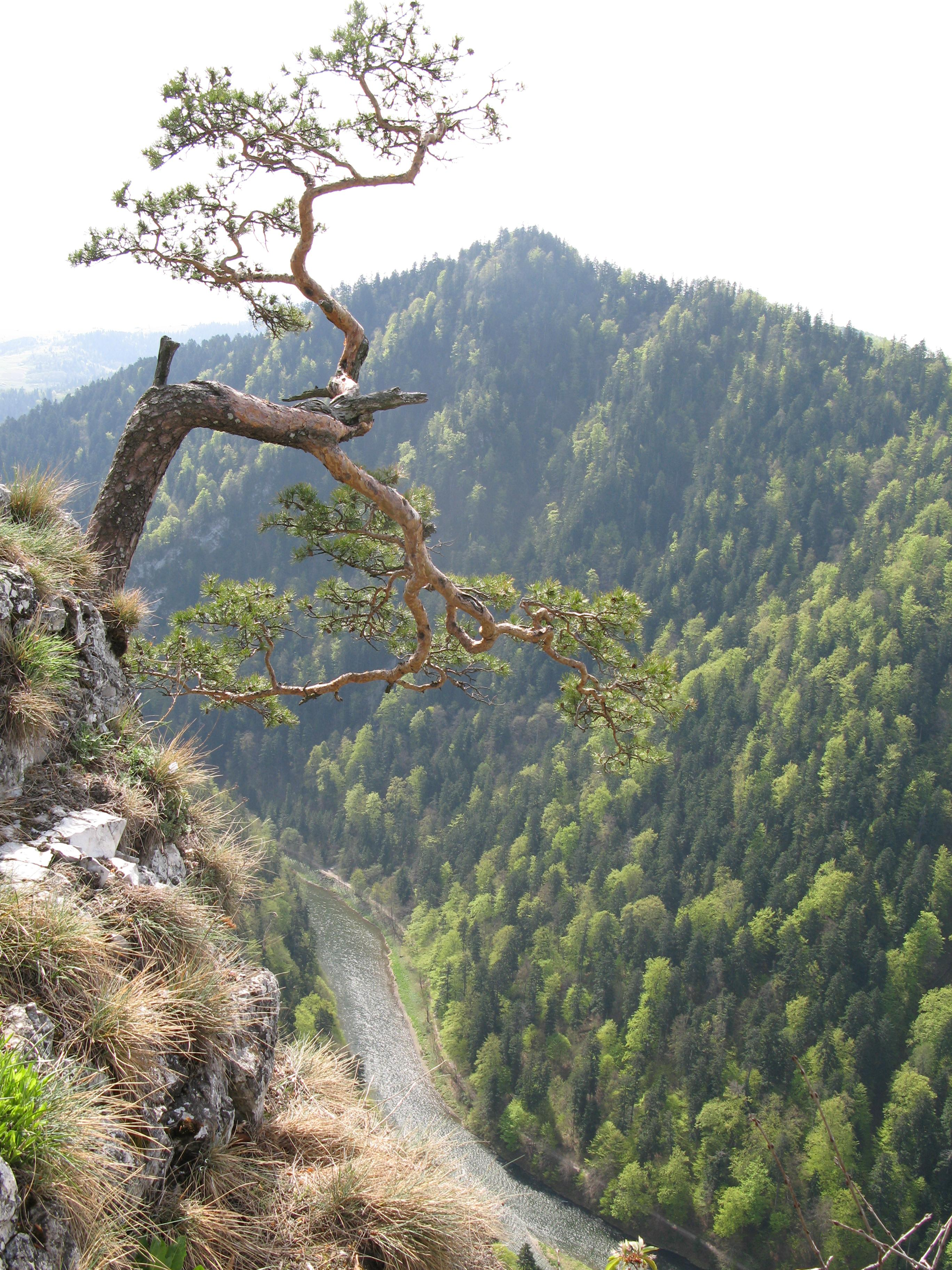 Pinus on Sokolica, Pieniny, Poland